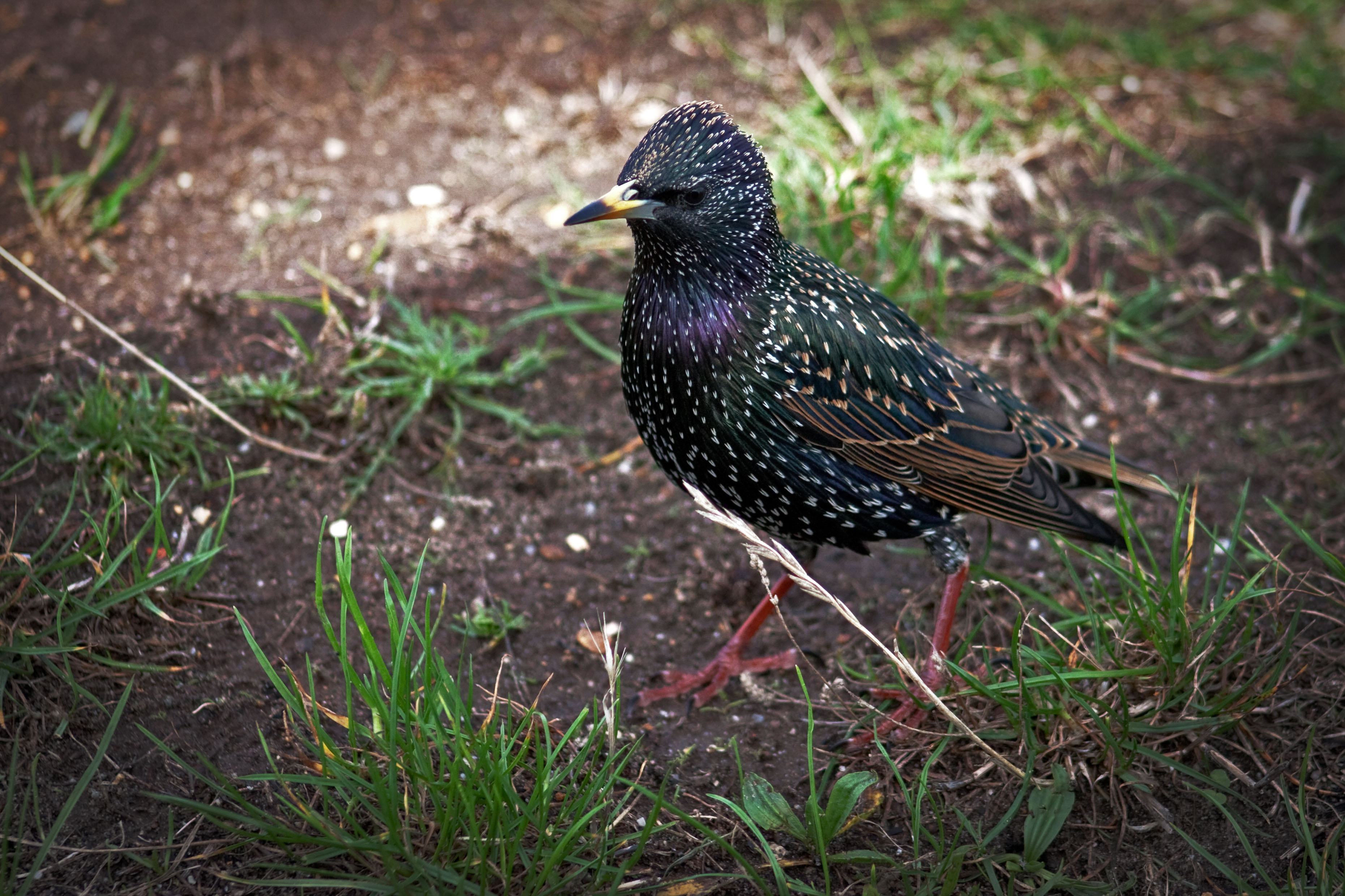 An adult male European Starling (also known as Common Starling or just Starling locally) in non-breeding plumage standing on ground in West Somerset, England.